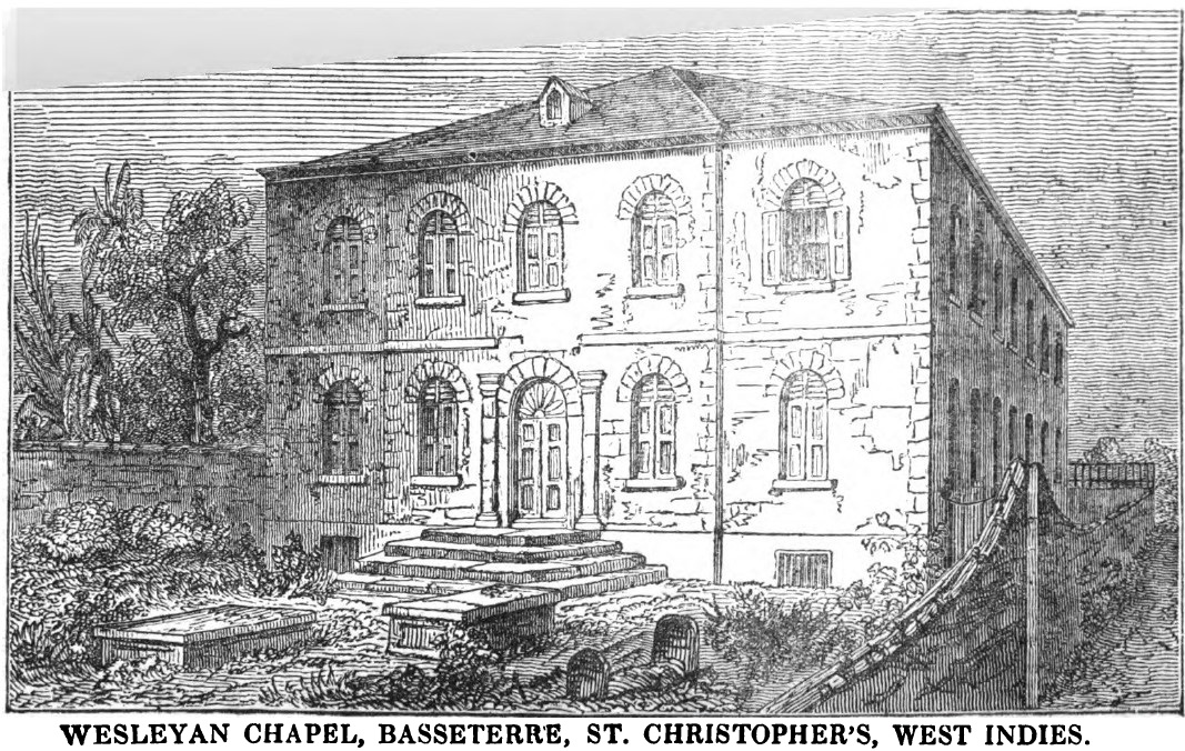 Wesleyan Chapel, Basseterre, St. Christopher's, West Indies (VII, p.18, February 1850)